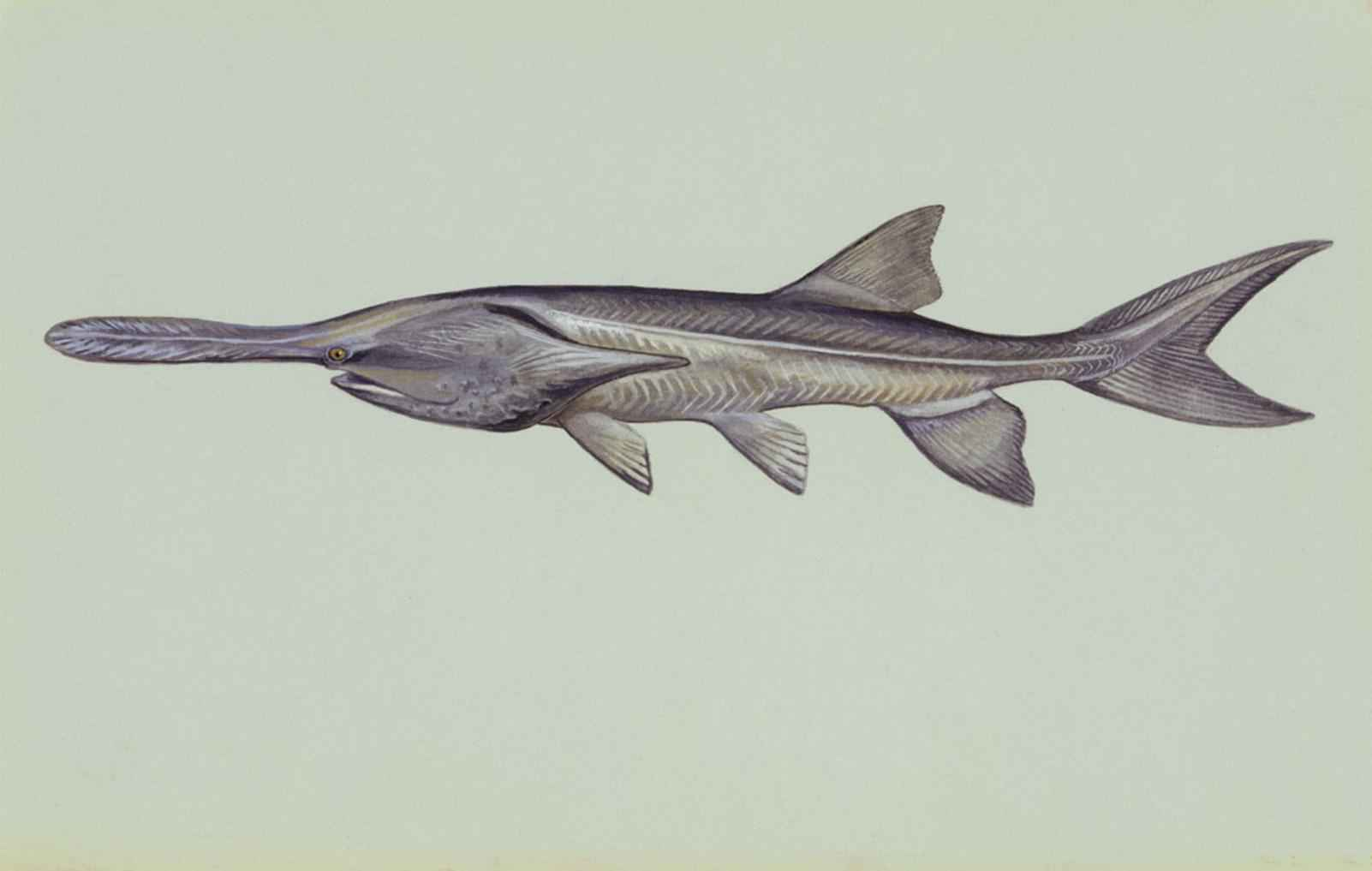 Image title: Paddlefish underwater polyodon spathula Image from Public domain images website